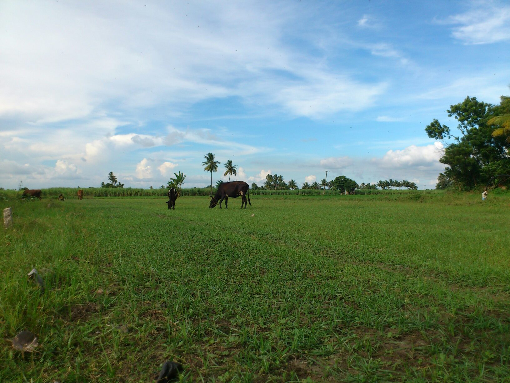 agricultural field in ganapathikurichi